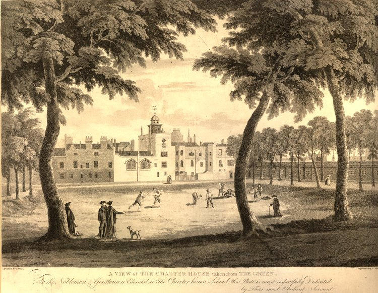 "A View of the Charter House taken from the Green," etching and aquatint, by the British printmaker Robert Havell I (after T. Ward). 354 mm x 446 mm. Courtesy of the British Museum, London.